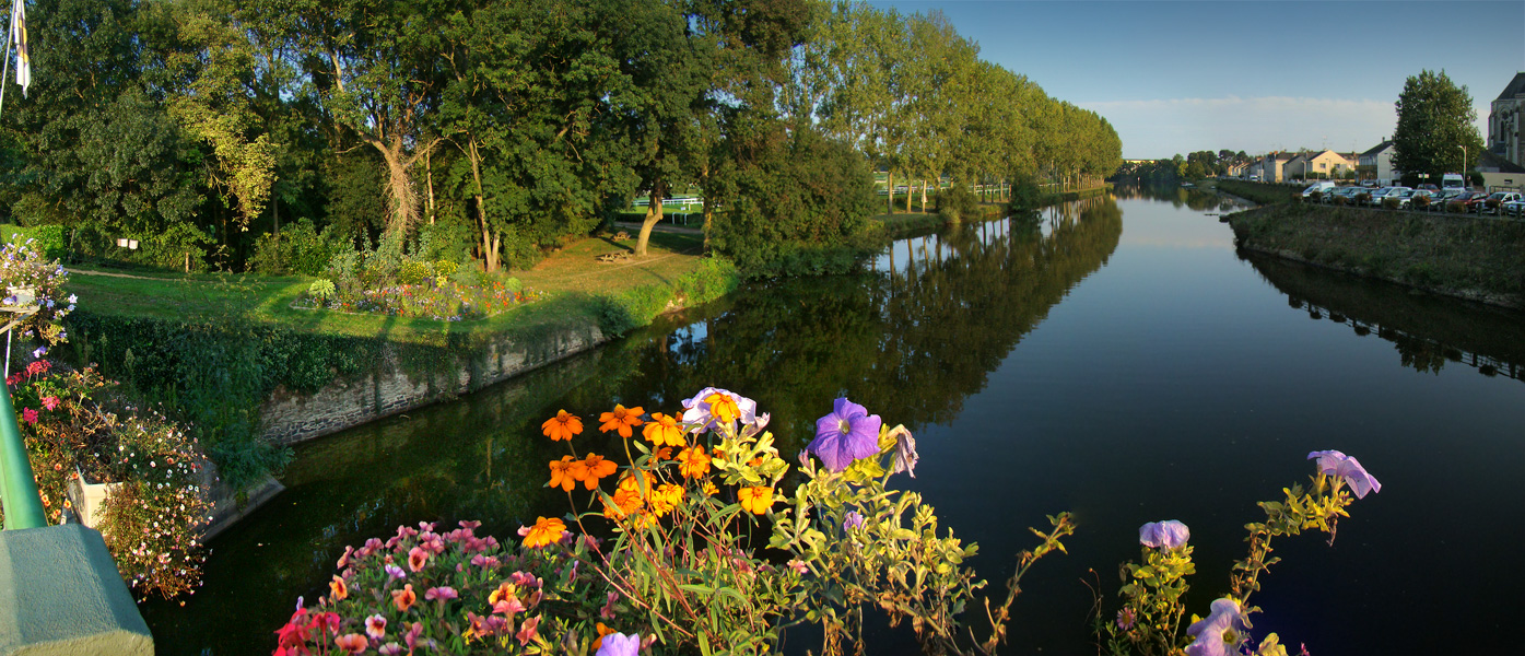 Le Lion-d'Angers, Maine-et-Loire, Pays de la Loire, France. Sunset on the Oudon.